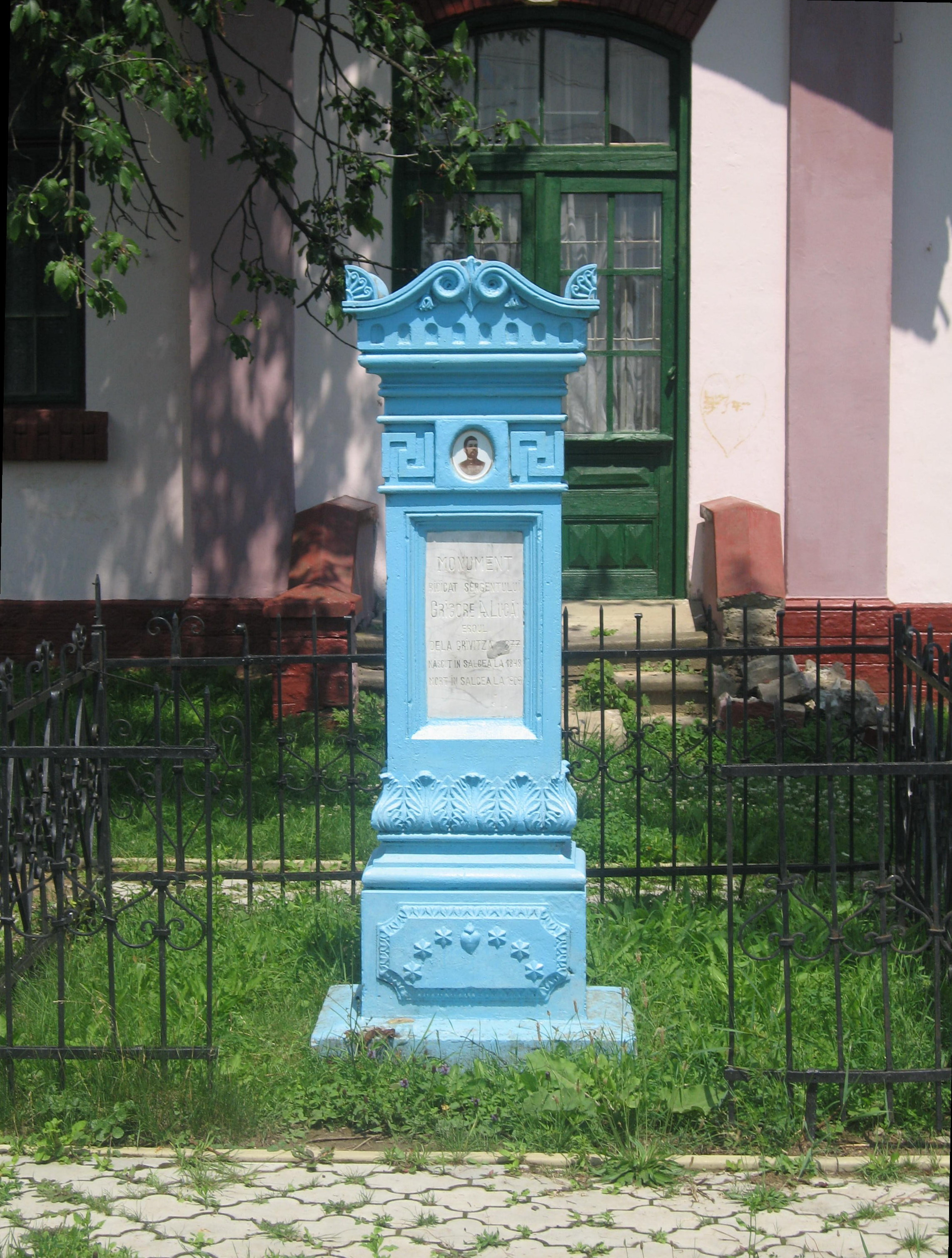 Monumentul eroului Grigore Alucăi